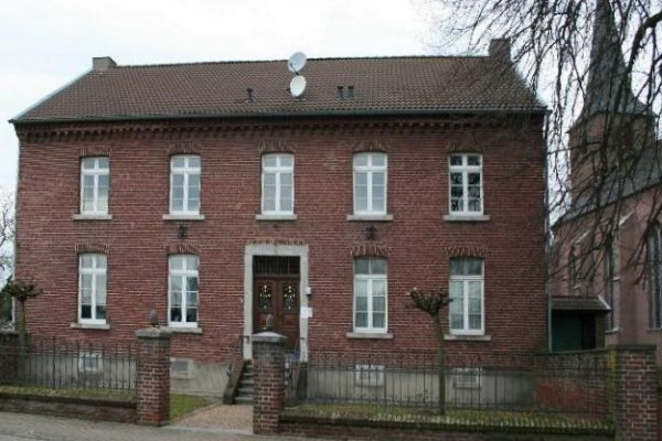 Cultural heritage monument No. 45 in Gangelt